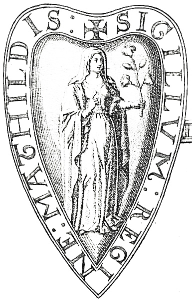 Seal of Theresa of Portugal, Countess of Flanders